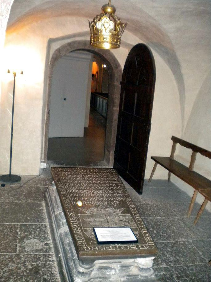 Misplaced 16th century tomb for King Magnus I (the site of his burial is unknown and not likely to have been at Vreta)Place: Vreta Church, Linköping, Sweden